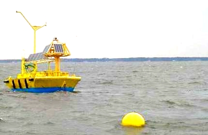 NOMAD real-time data buoy, Va. Inst. of Marine Science